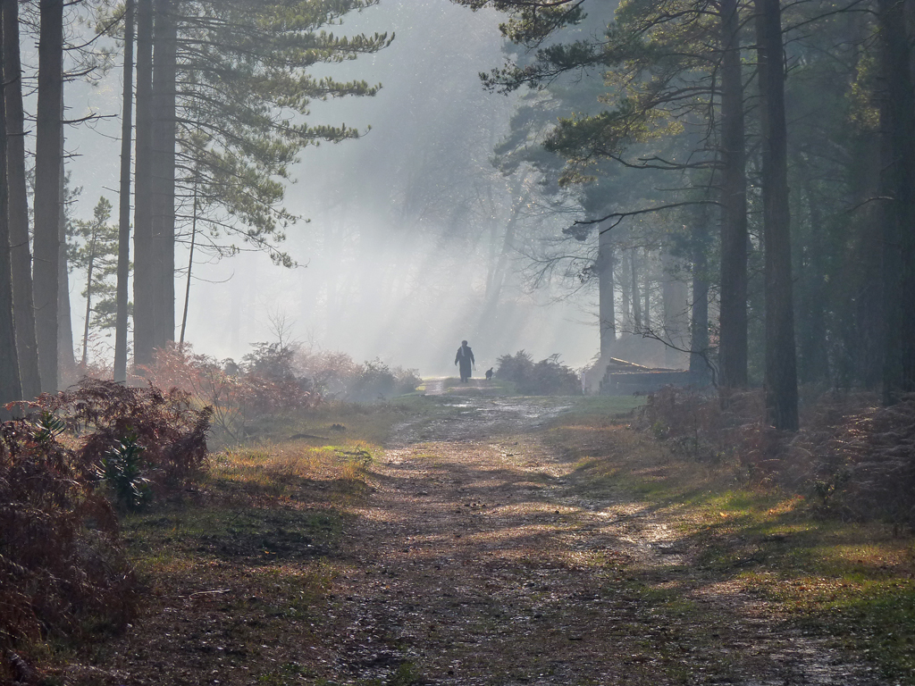 Morning Walk near to Acres Down